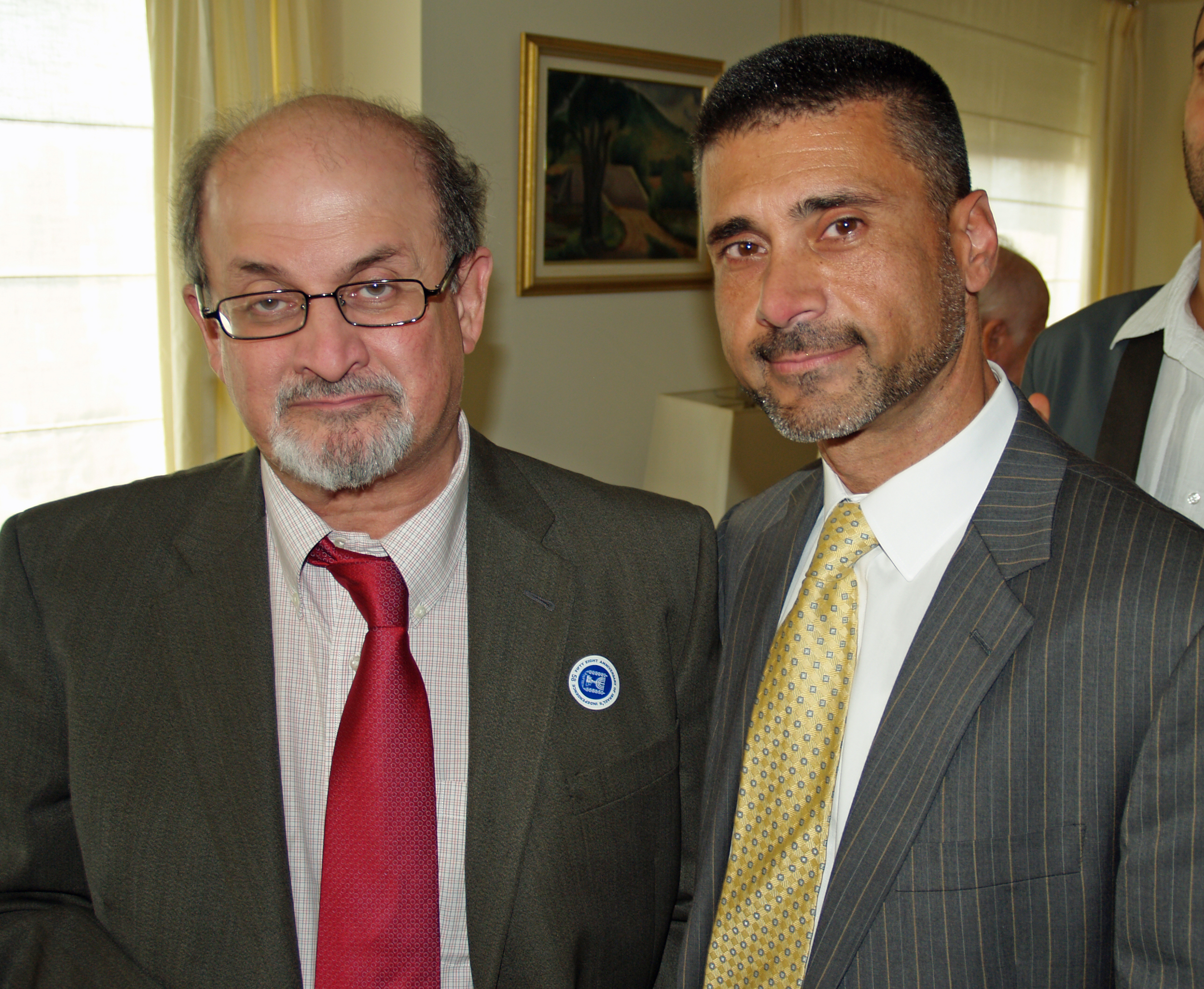 Author Salman Rushdie and Israeli Consul David Saranga at a breakfast honoring Amos Oz. Photographers blog post about this event and photograph.